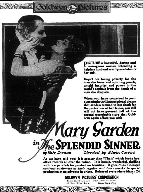 Advertisement for the American war drama film The Splendid Sinner (1918) with Anders Randolf and Mary Garden, on page 45 of the March 15, 1918 Variety.